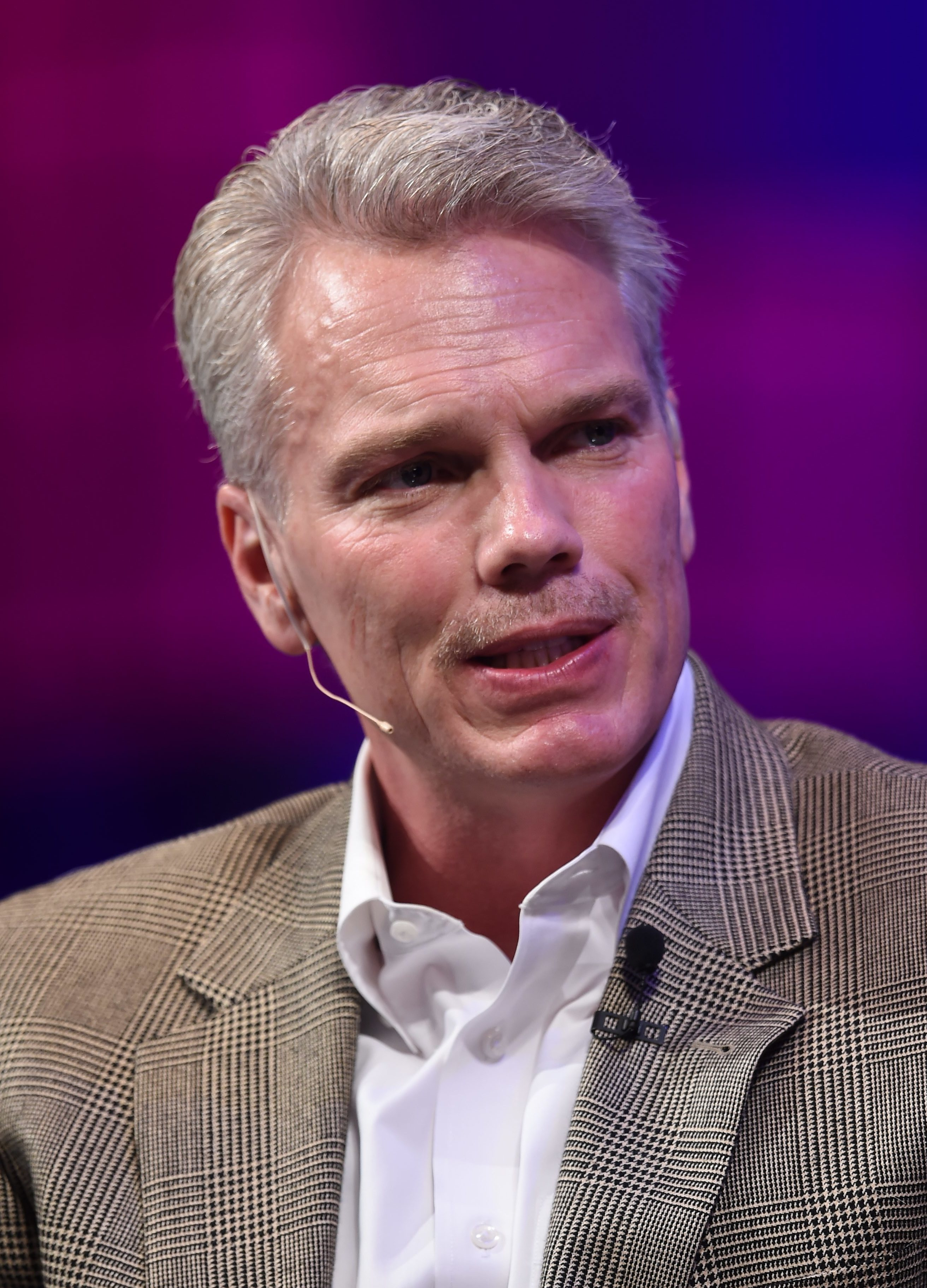 Intuit president and CEO Brad D. Smith at Web Summit 2014.